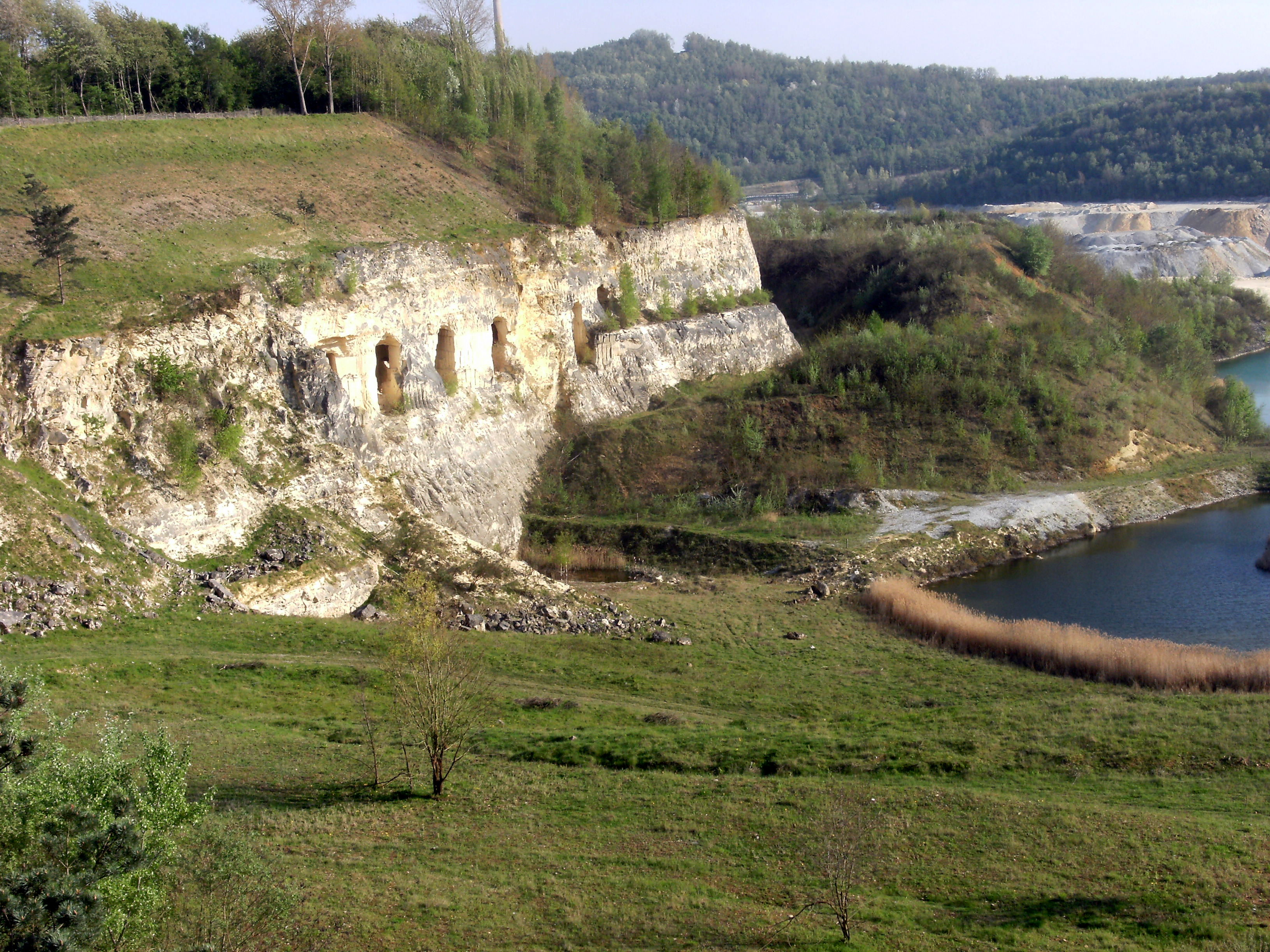 2013-05-04 in Maastricht; Views of ENCI Quarry.